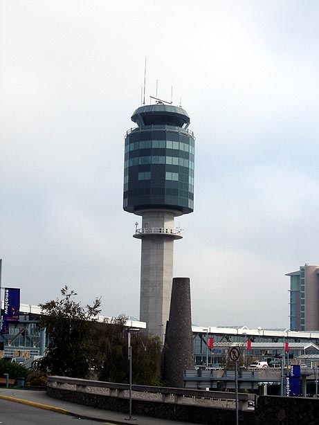 Vancouver International Airport – Control Tower